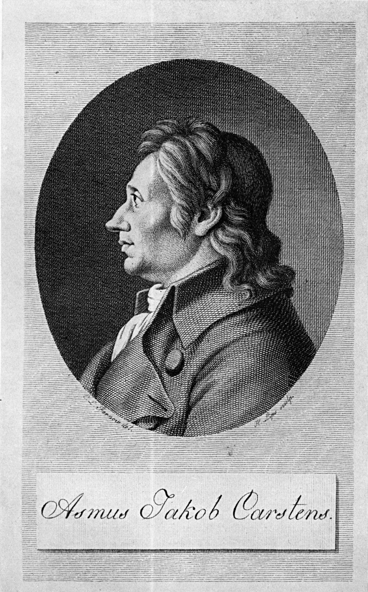 Asmus Jacob Carstens (1754-1798), German painter